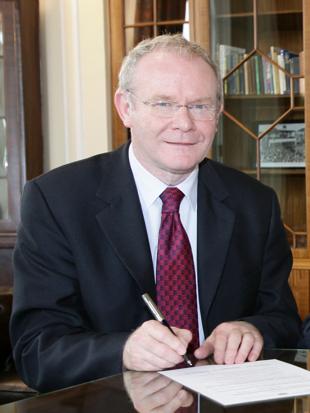 Martin Mc Guinness.